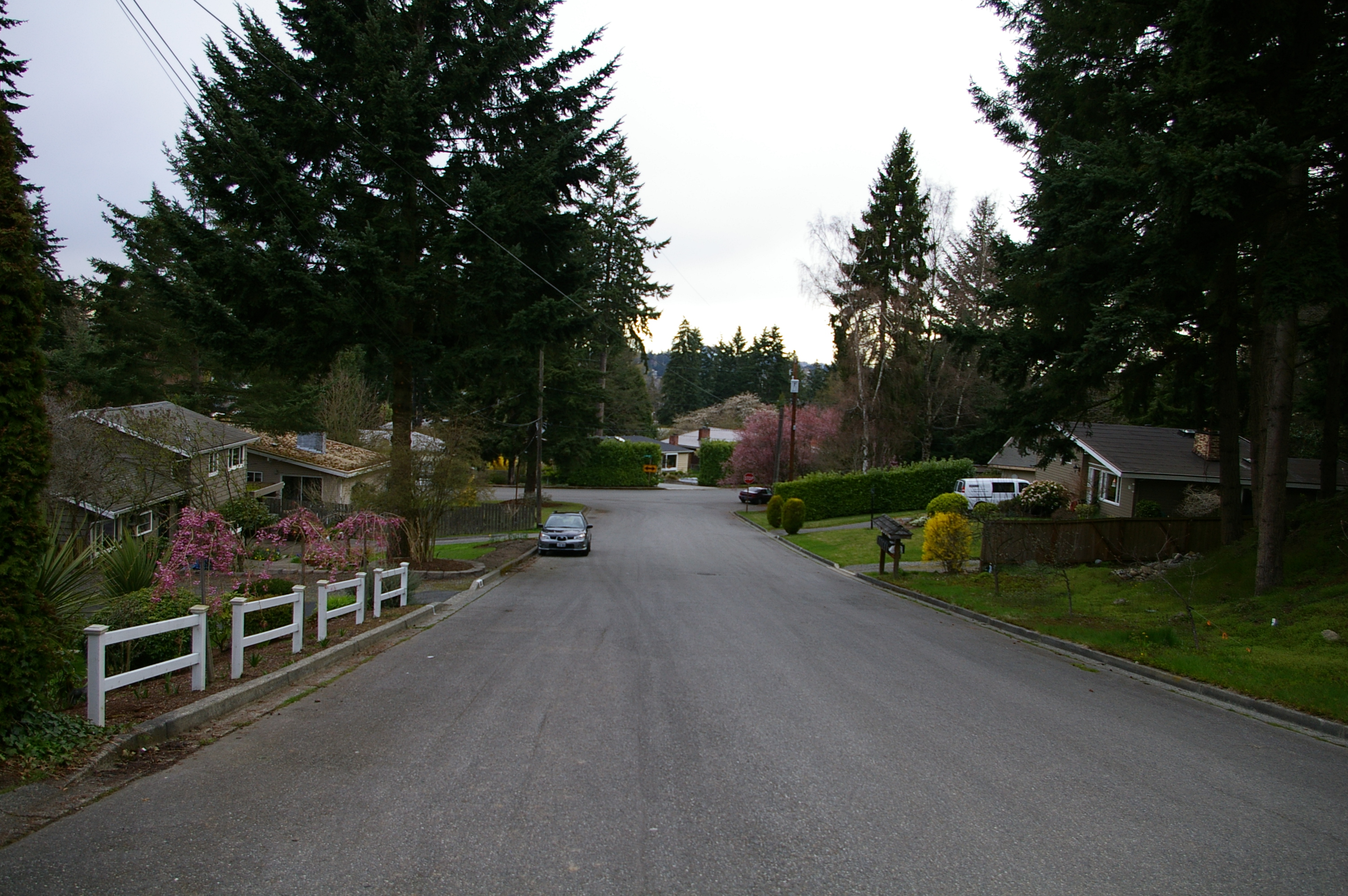 A typical street in Eastgate CDP, Washington